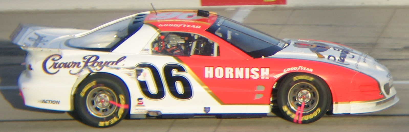 Bringing it into the pits after spinning